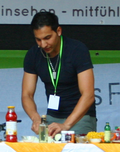 Attila Hildmann cooks at Veggie Street Day Dortmund 2010-08-14 (edited)